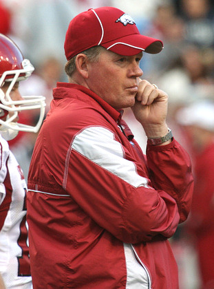 Photograph of Coach Bobby Petrino at the 2010 Arkansas Red-White Game.